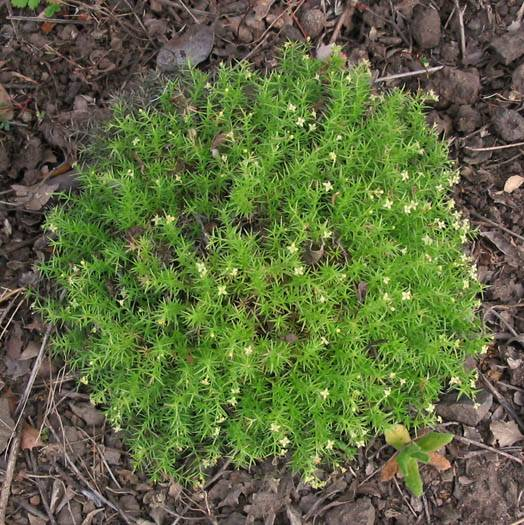 Galium andrewsii — Phloxleaf bedstraw, Andrews' bedstraw. On the Mishe Mokwa trail at Circle X Ranch Park — in the Santa Monica Mountains National Recreation Area, California.